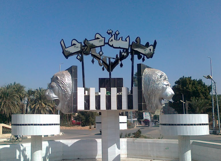 Girga Enterance